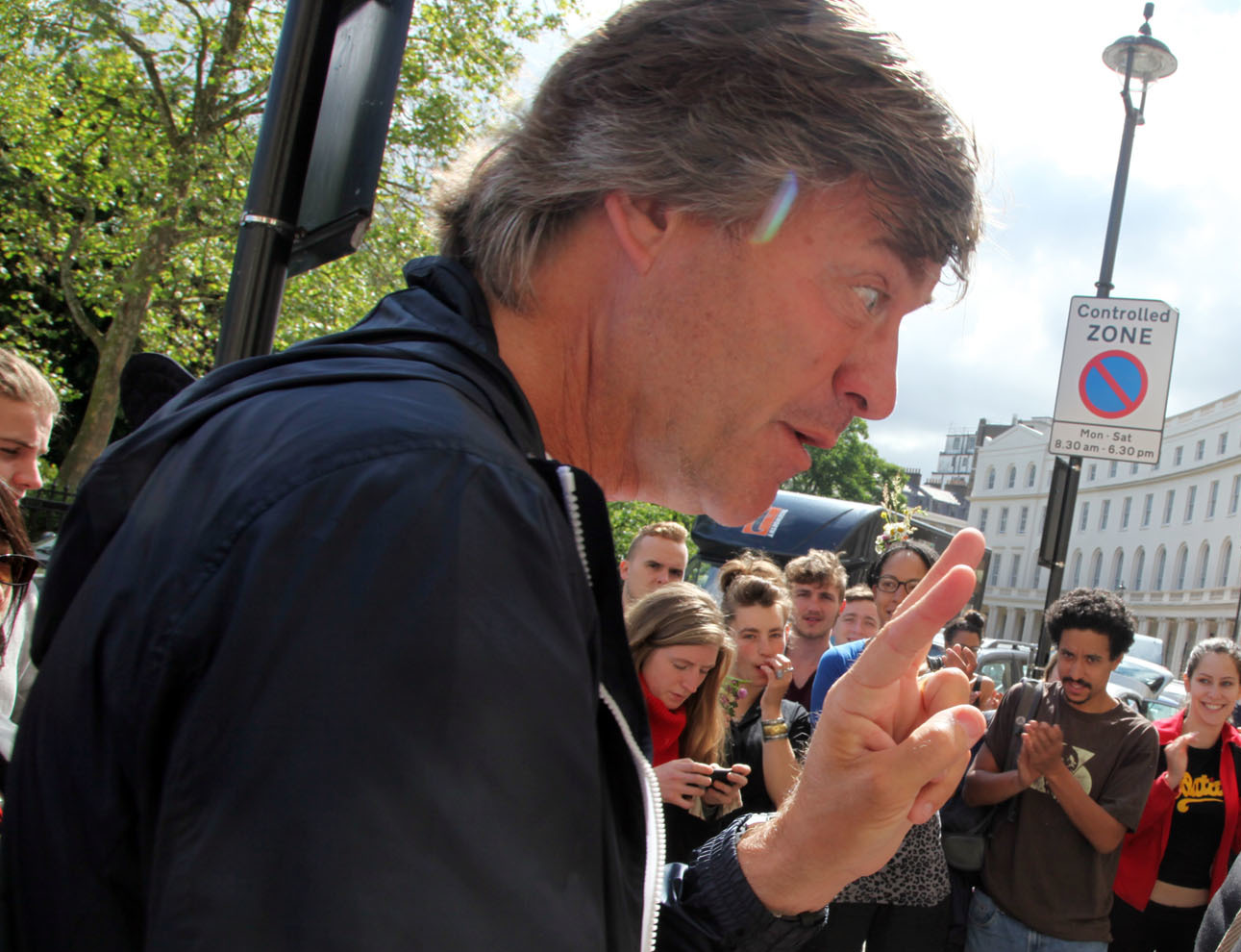 Residents and supporters of Grow Heathrow outside Central London County Court. Photo by Jonathan Goldberg